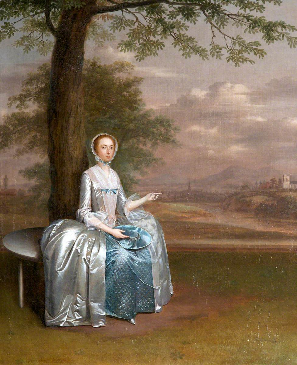 Portrait of Mary Unwin (1724–1796), Mrs. Morley Unwin (Mary Cawthorne), English evangelical known as the friend of the poet William Cowper.